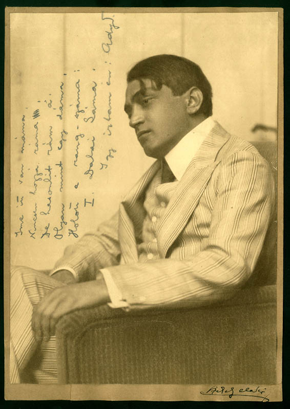 Dedicated portrait of Endre Ady. Photograph by Aladár Székely National Széchényi Library LocationBudapestCoordinates47° 29′ 53.34″ N, 19° 02′ 14.4″ E Established1802Web page control : Q1063819 VIAF: 157919295 ISNI: 0000 0001 1781 8798 ULAN: 500306655 LCCN: n79076057 NLA: 35722893 WorldCat institution QS:P195,Q1063819